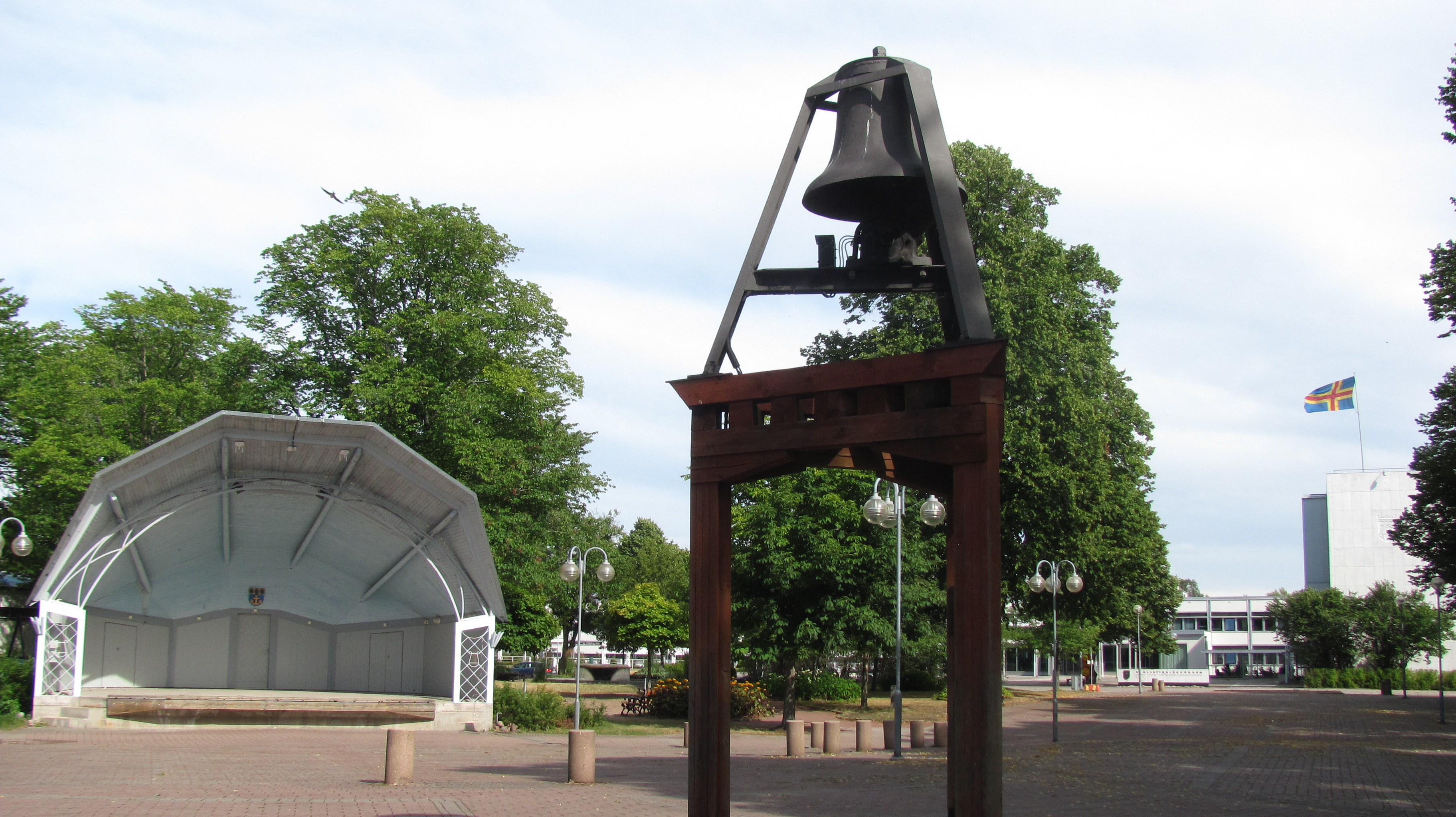 Market Place, Mariehamn, Fasta Aland, Finland